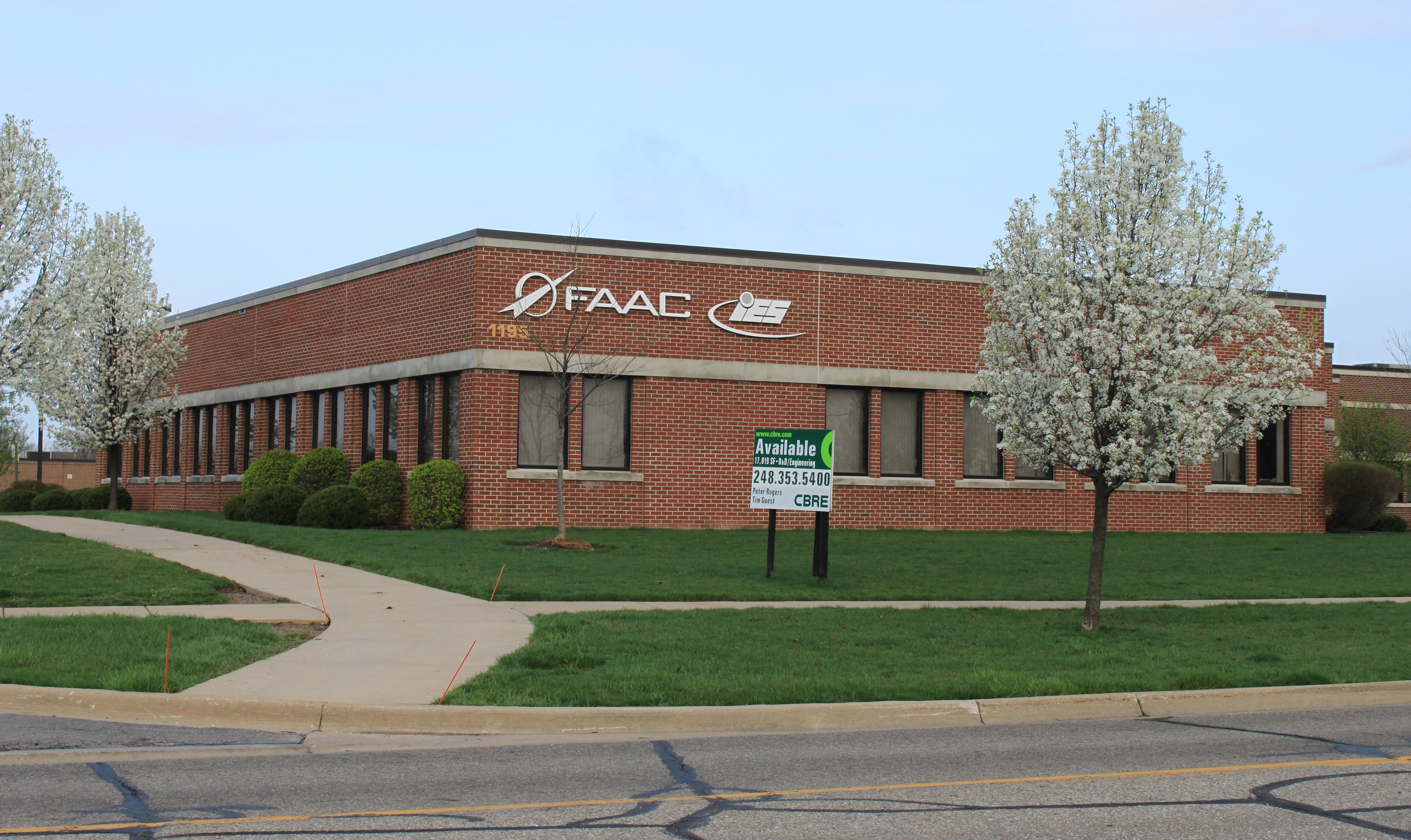 FAAC/IES division of Arotech Corporation corporate offices, 1195 Oak Valley Drive, Ann Arbor, Michigan.